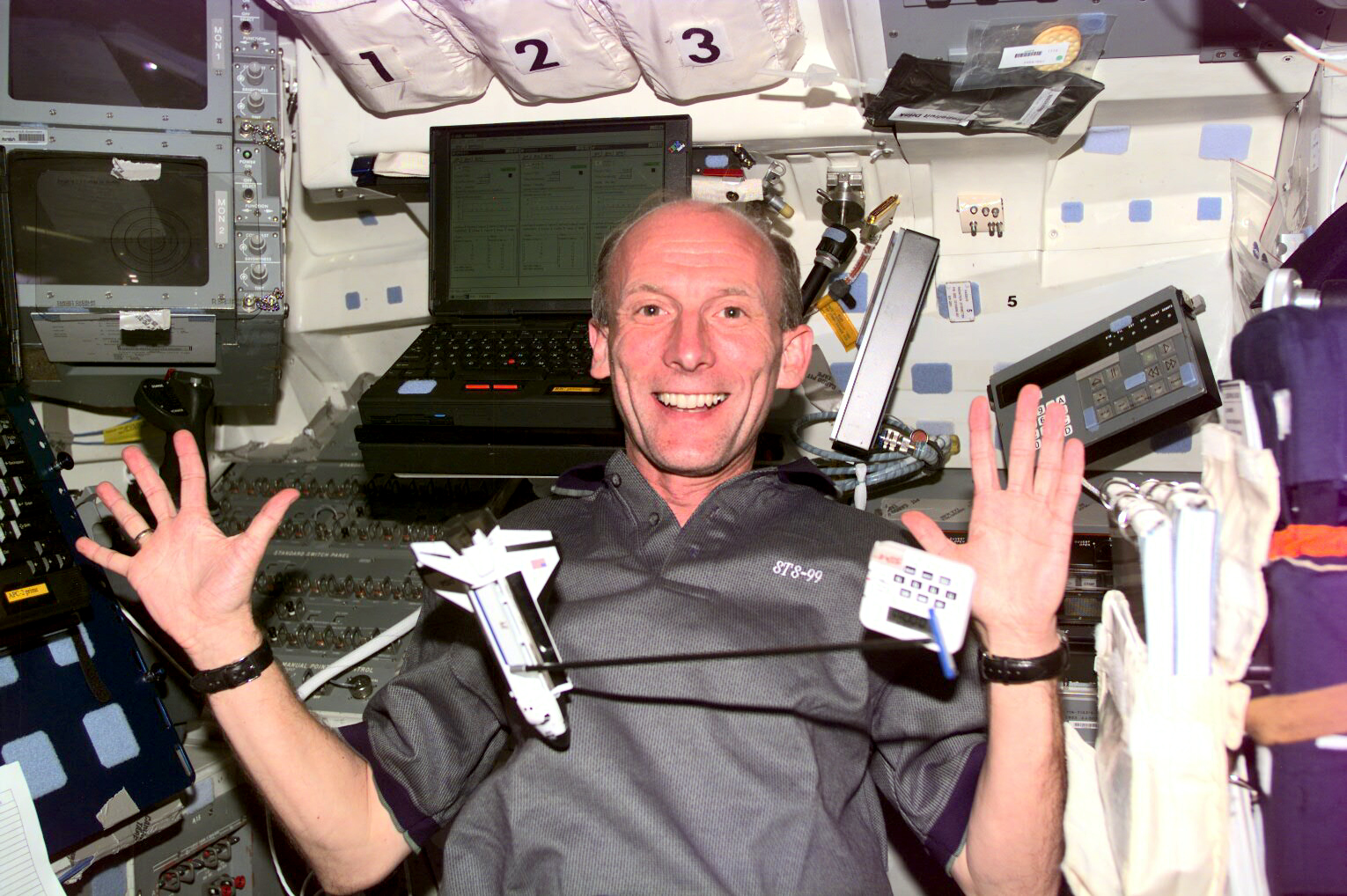 Astronaut Gerhard Thiele looses a number of onboard supplies to float freely on Endeavour's flight deck.